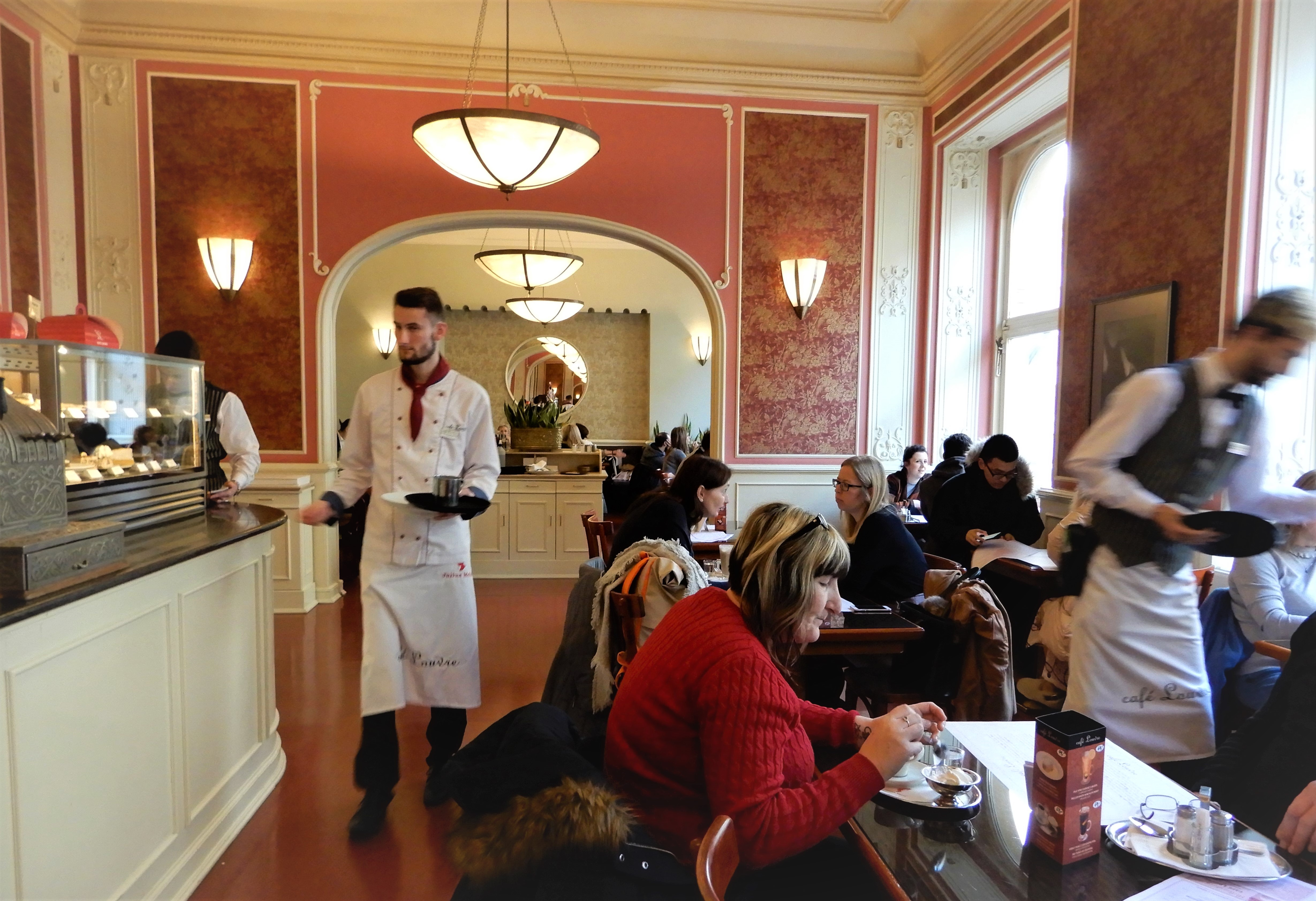 Café Louvre Prague, interior, Národní street